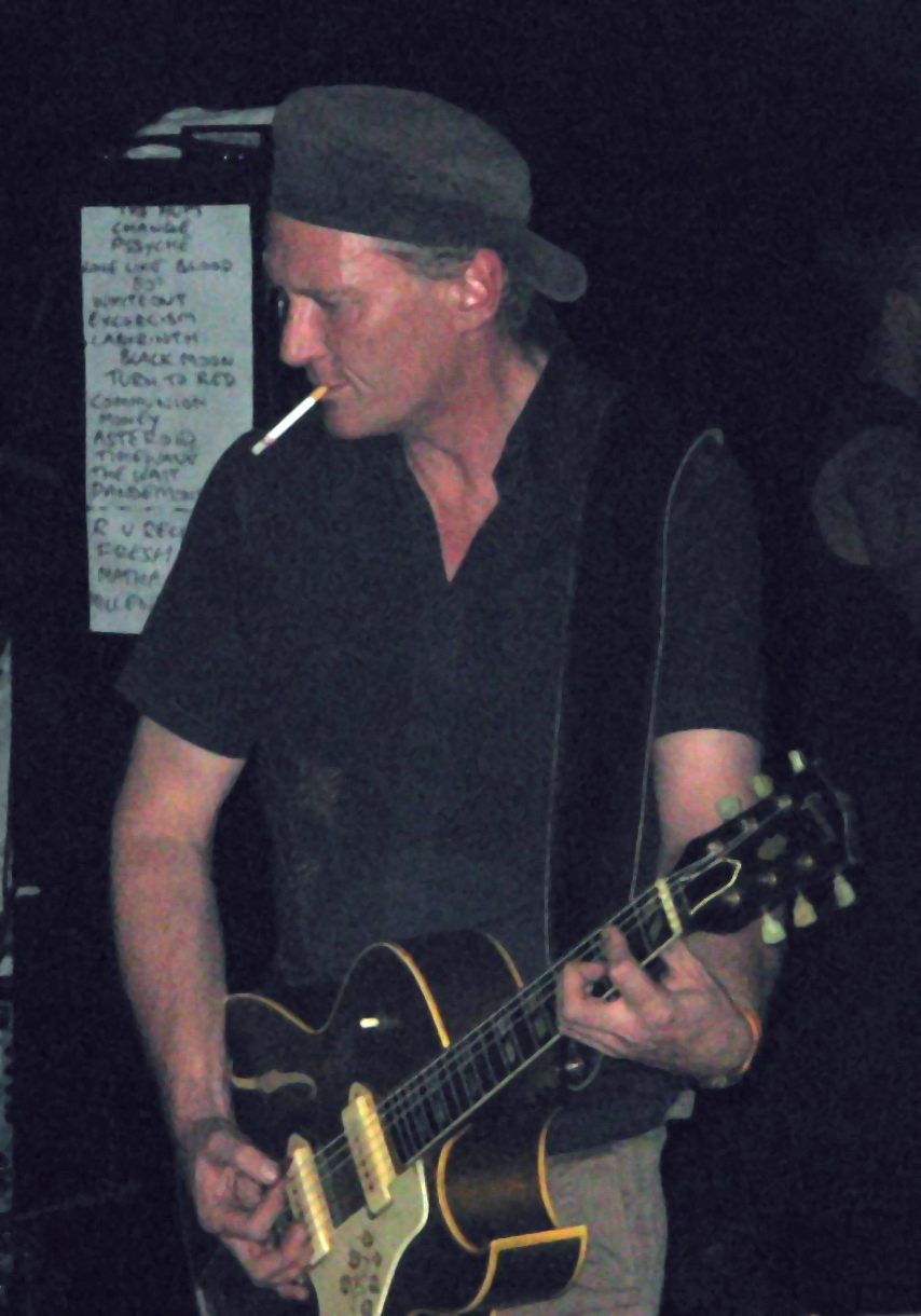 Guitarist Geordie Walker on stage with Killing Joke, Paris, sept. 27, 2008.